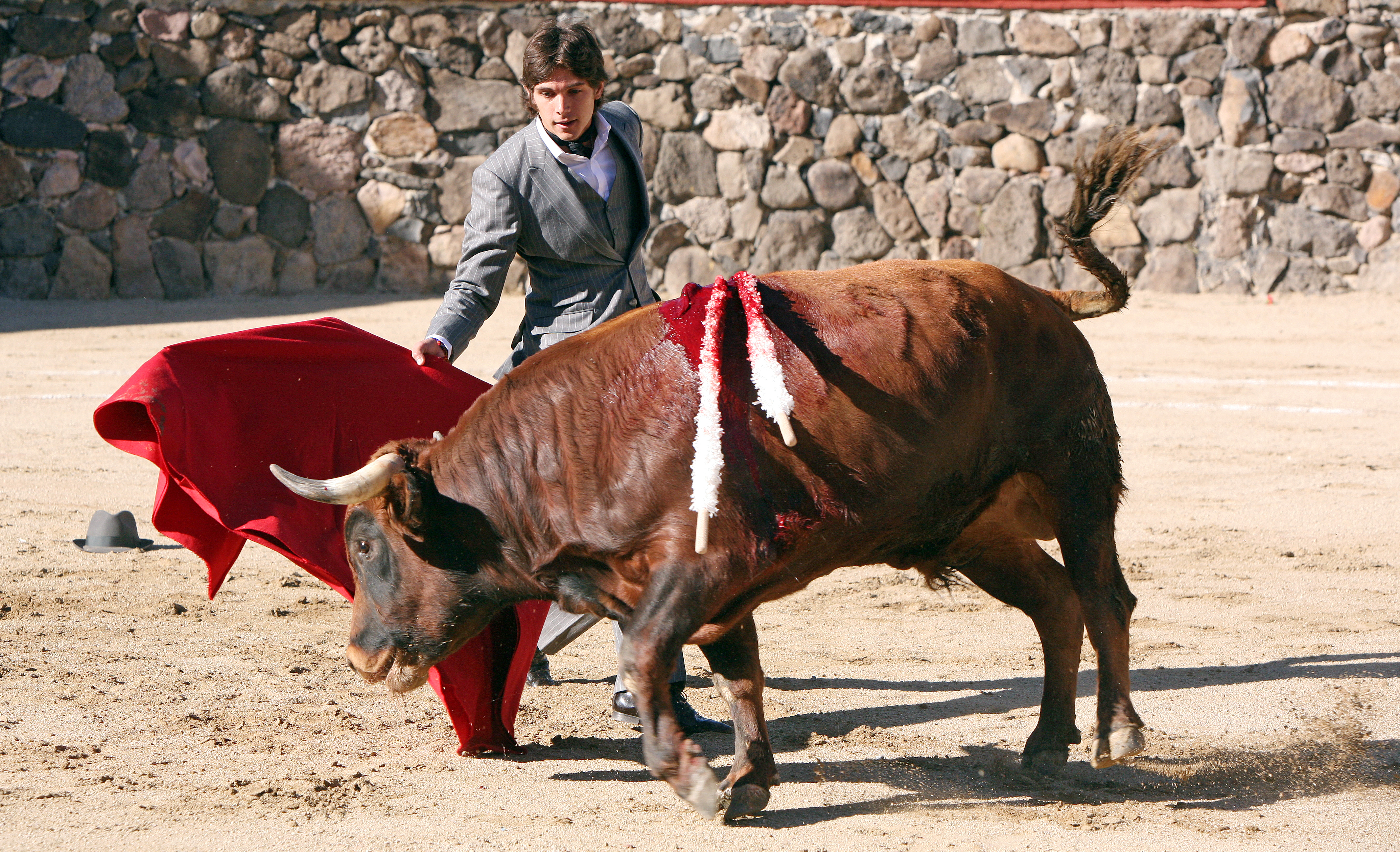 Sebastian Castella, a French bullfighter, bullfighting in a suit at an exhibition presentation.